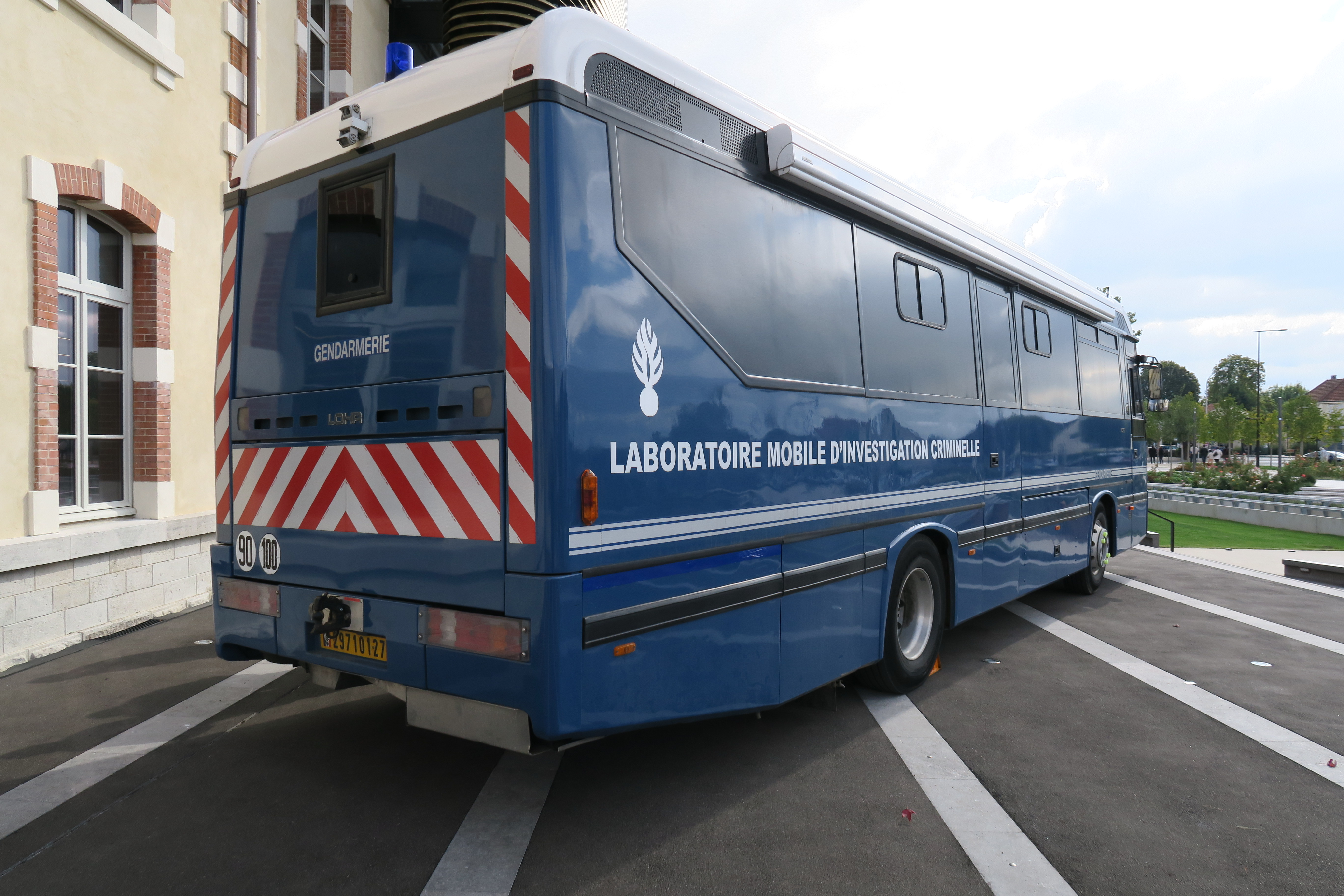 French Gendarmerie nationale mobile criminal investigations lab